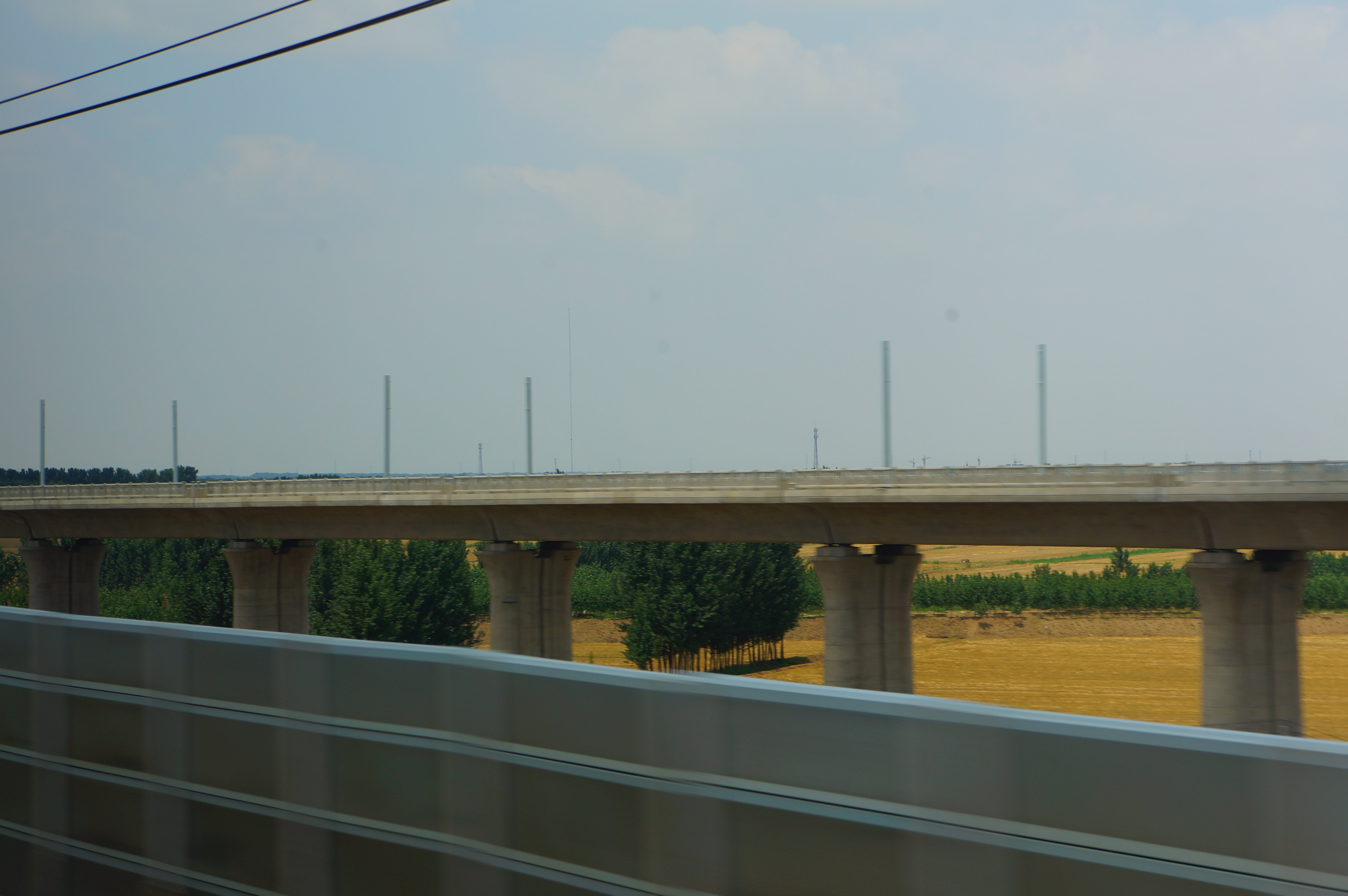 201606 Shijiazhuang–Jinan HSR in Jinan under construction